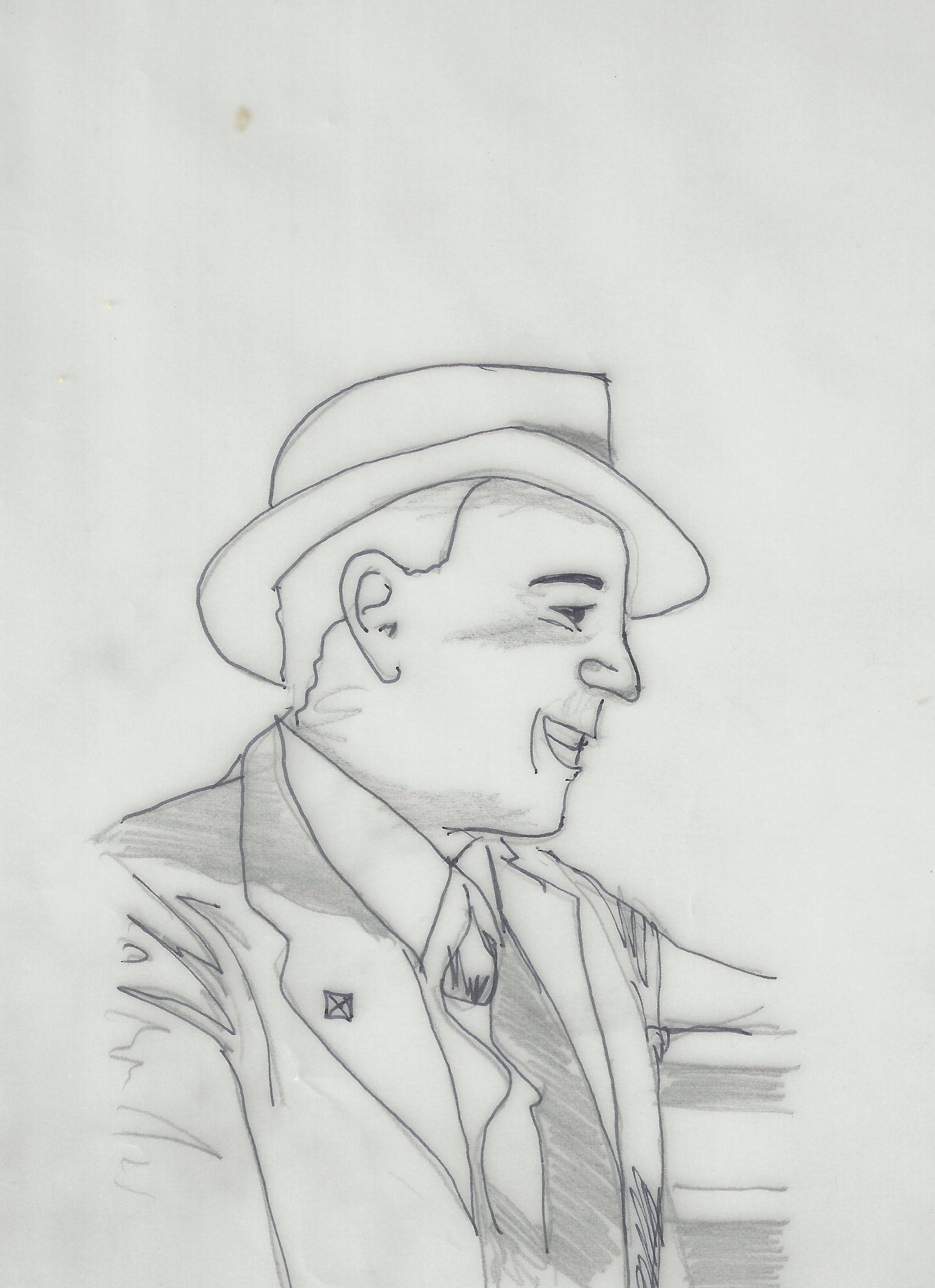 Drawings on Edwin Hayes